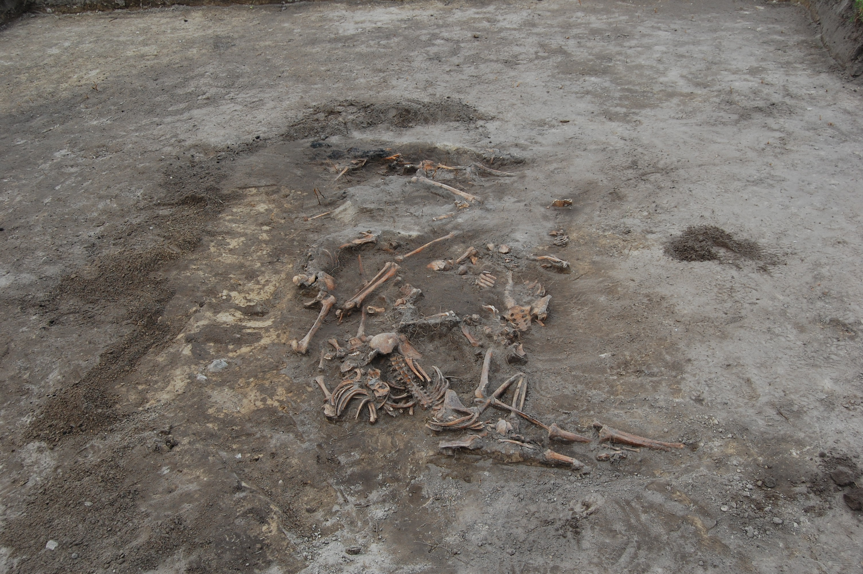 Wola Ostrowiecka, exhumation in the place of former school (2011) by Polish anthropologist Dr Leon Popek. The massacre of Polish inhabitants of Wola Ostrowiecka was committed in 1943 in the Wołyń Voivodeship of the Second Polish Republic.)[1]